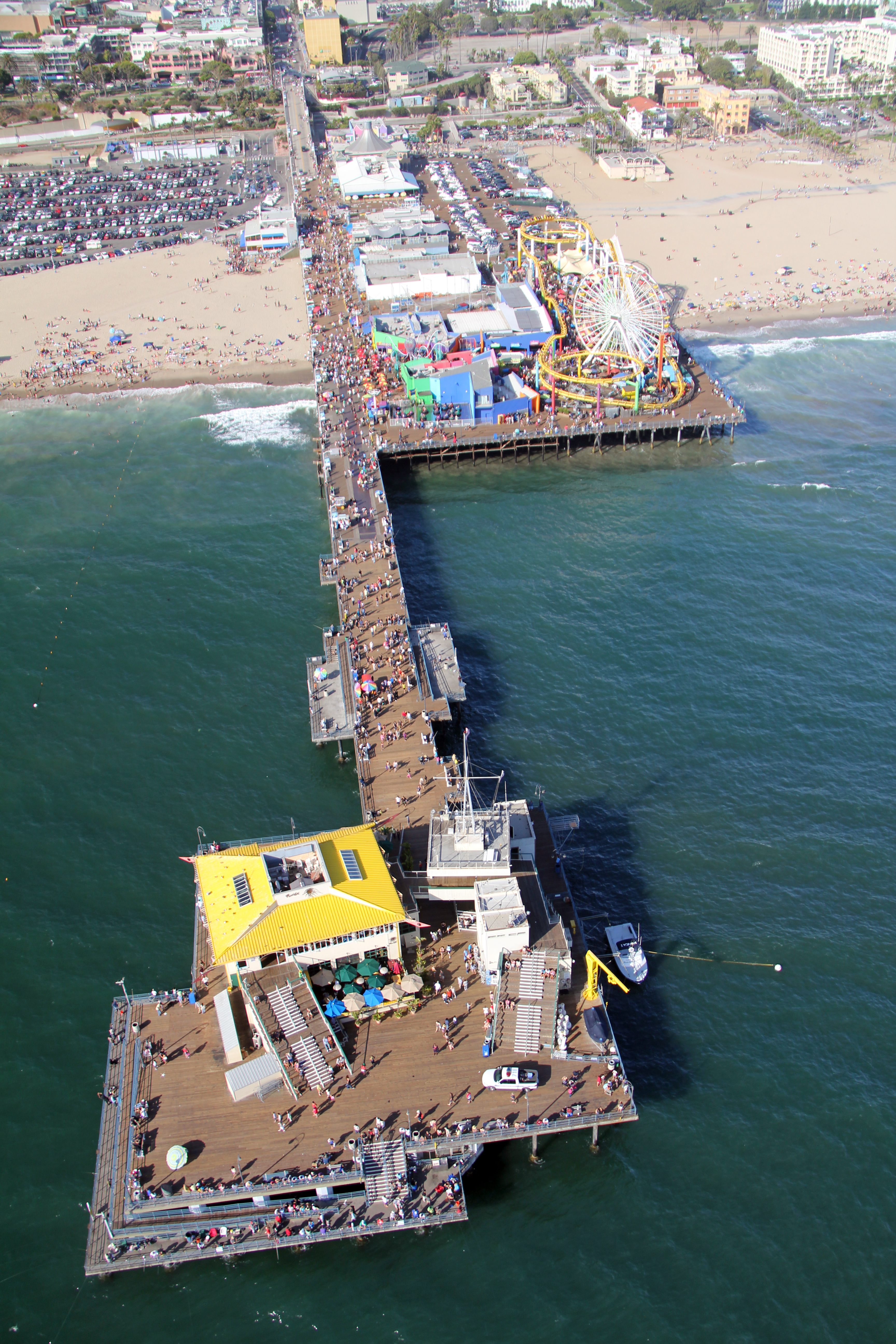 Aerial photo of Santa Monica Pier